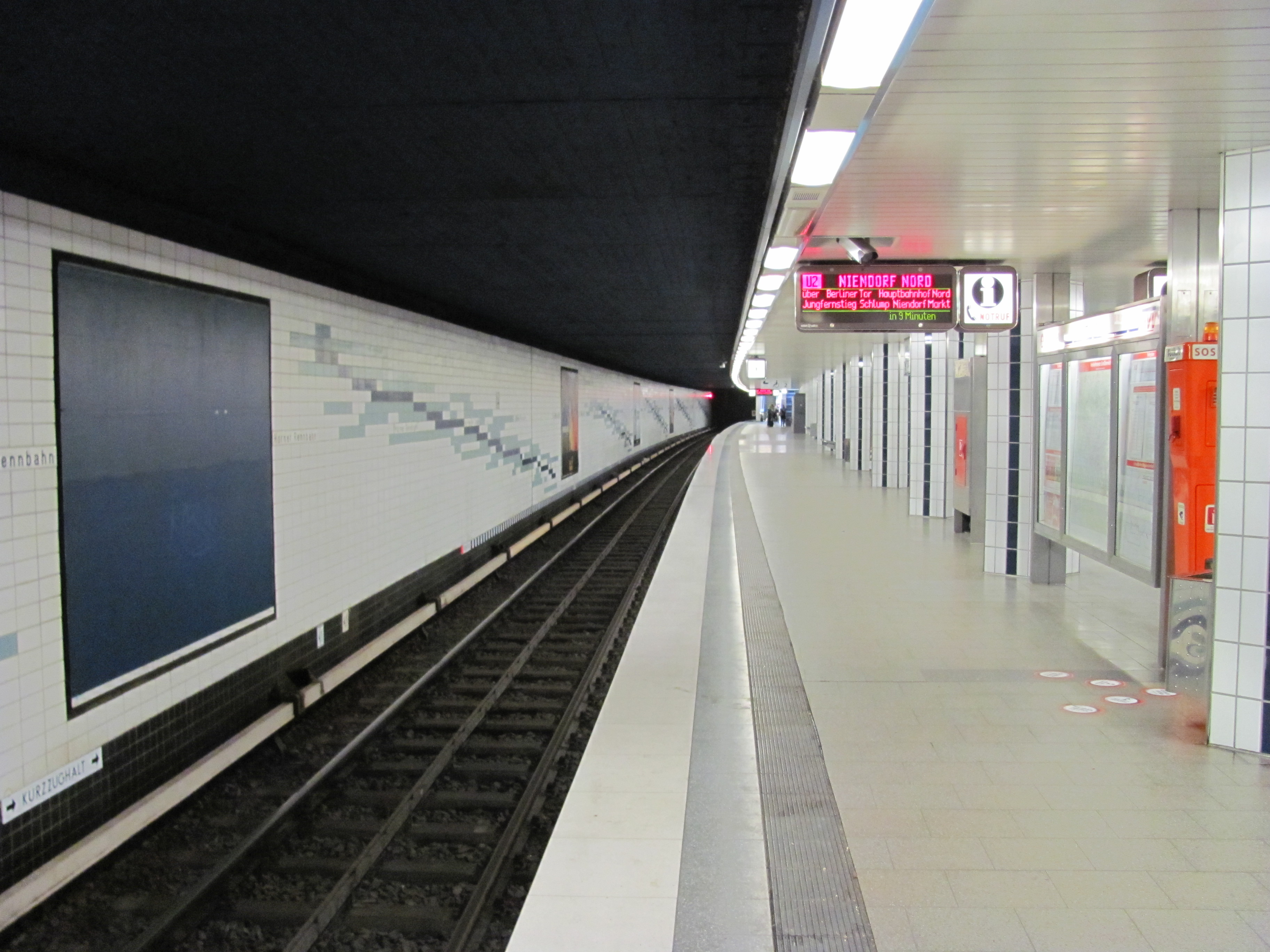 U-Bahn station Horner Rennbahn in Hamburg, Germany